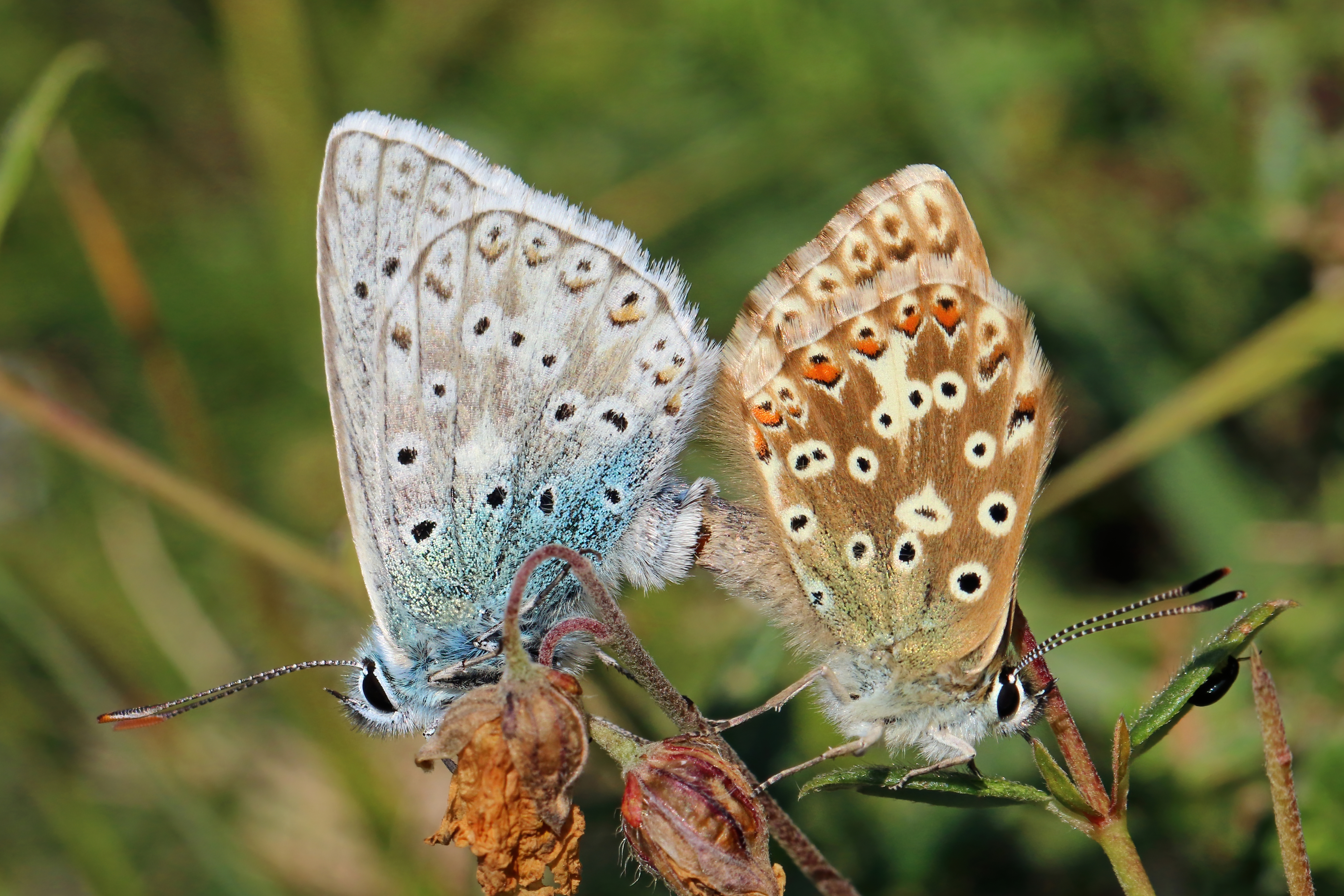 Chalkhill blue butterflies (Polyommatus coridon) mating at Aston Rowant National Nature Reserve, Oxfordshire